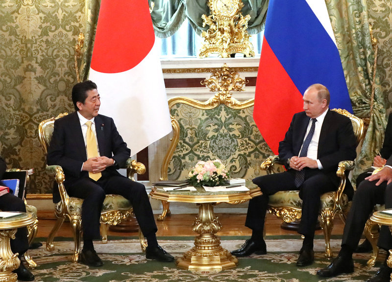 Japan-Russia Summit Meeting, Prime minister Shinzō Abe and president Vladimir Putin